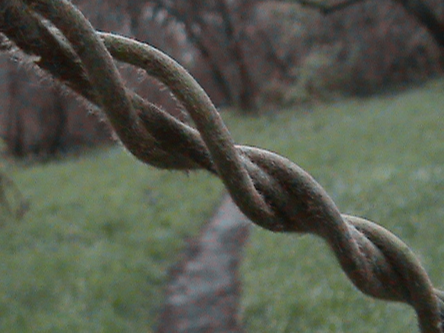 Close up of stem of California pipevine (Aristolochia californica). Easier to see the fuzziness of the stem.